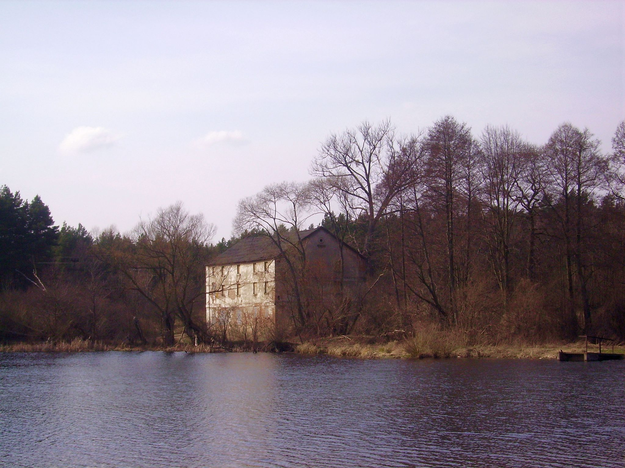 An old mill closed down in 1945 in Gaśno.